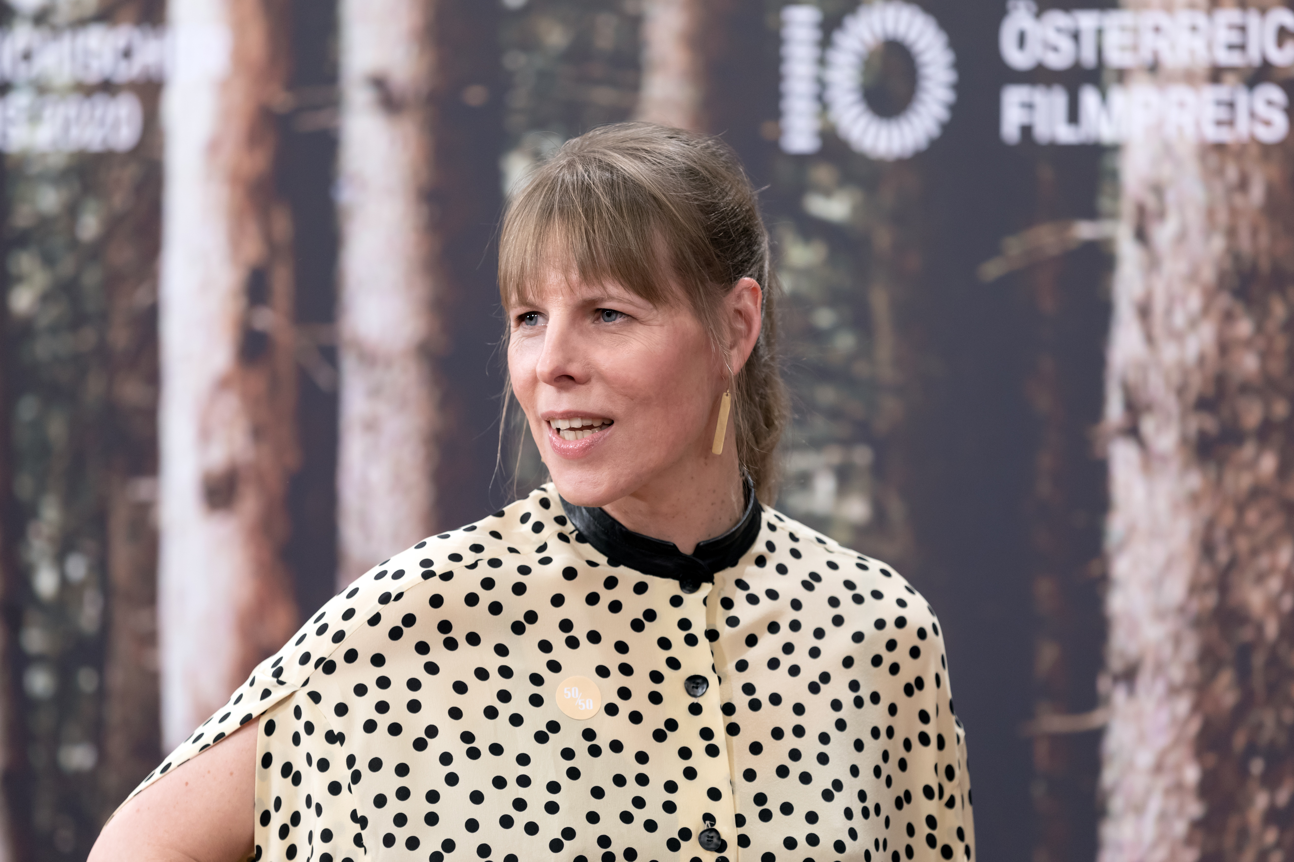 Leena Koppe (cinematography The Ground Beneath My Feet) at the Austrian Film Awards 2020 (Auditorium Grafenegg at Grafenegg Castle, Lower Austria,Austria).